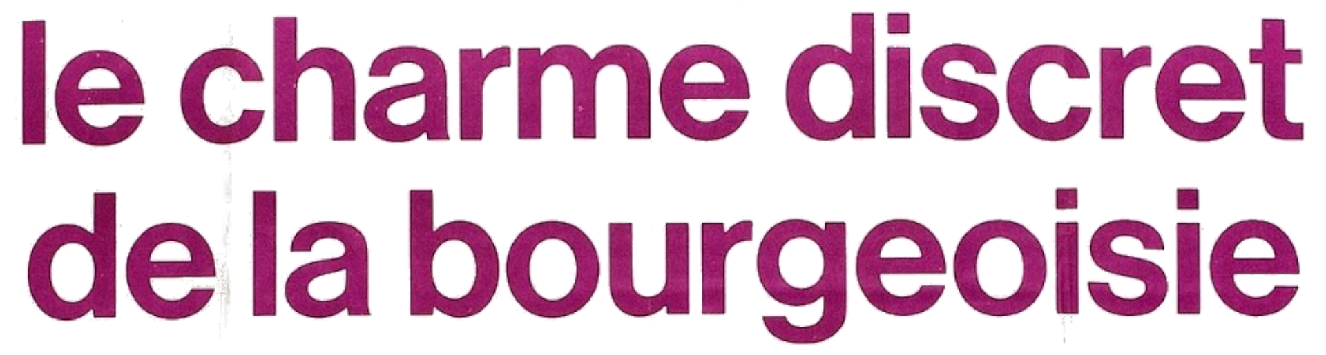 "Le charme discret de la bourgeoisie" movie logo (purple letters)